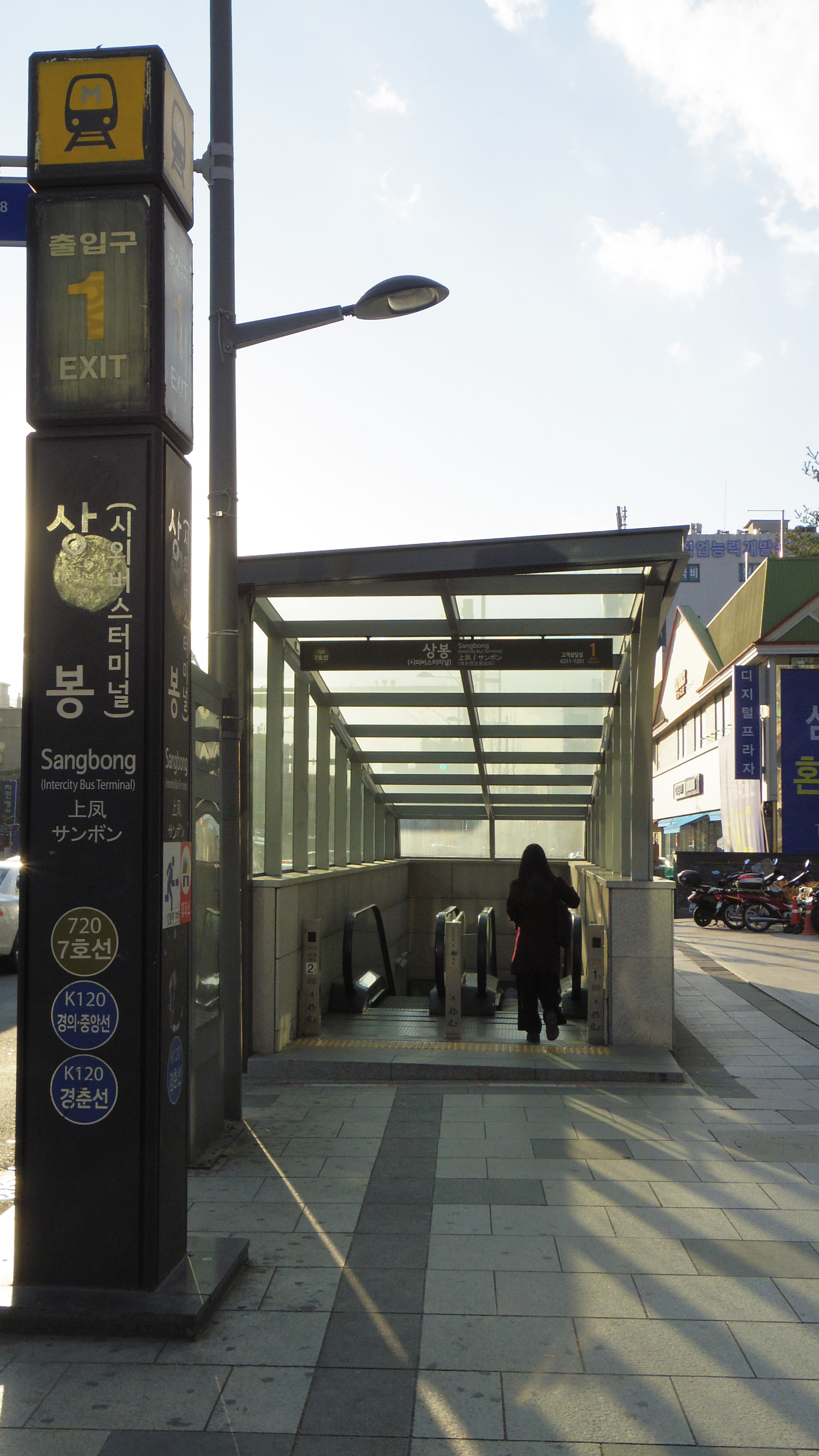 The no.1 entrance to Sangbong Station on Seoul Subway Line 7, Gyeongui-Jungang Line, Gyeongchun Line in Jungnang-gu, Seoul, Republic of Korea(South Korea)